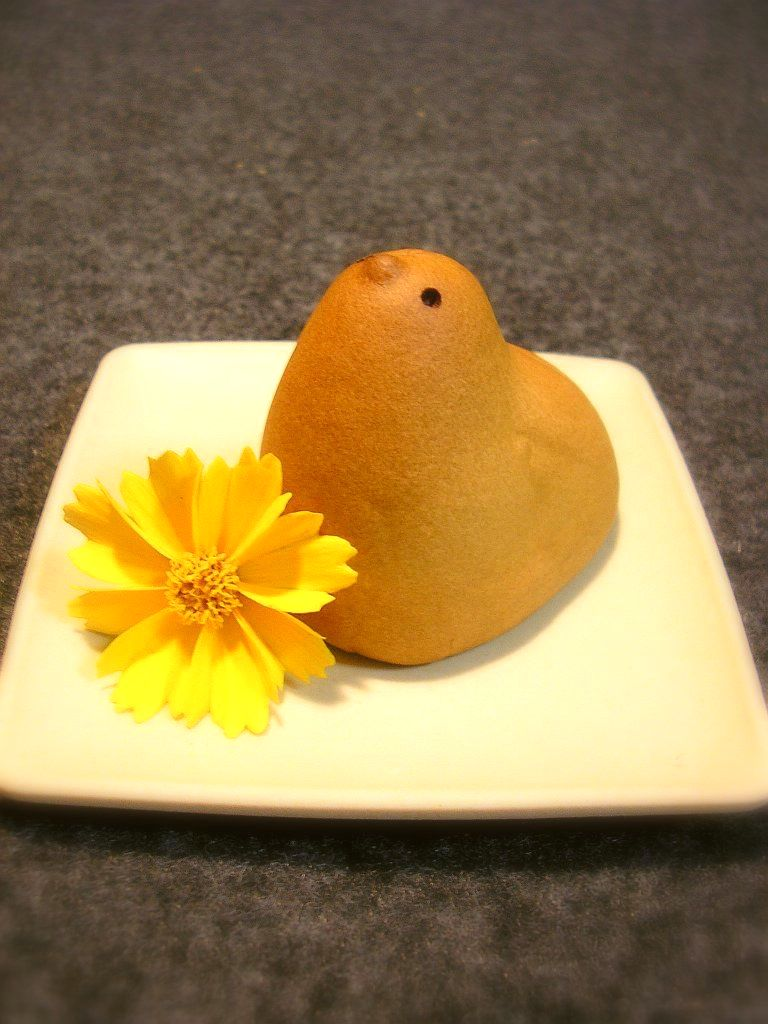 Japanese famous snack Hiyoko. A word "Hiyoko" means chick in Japanese. ひよこ饅頭。